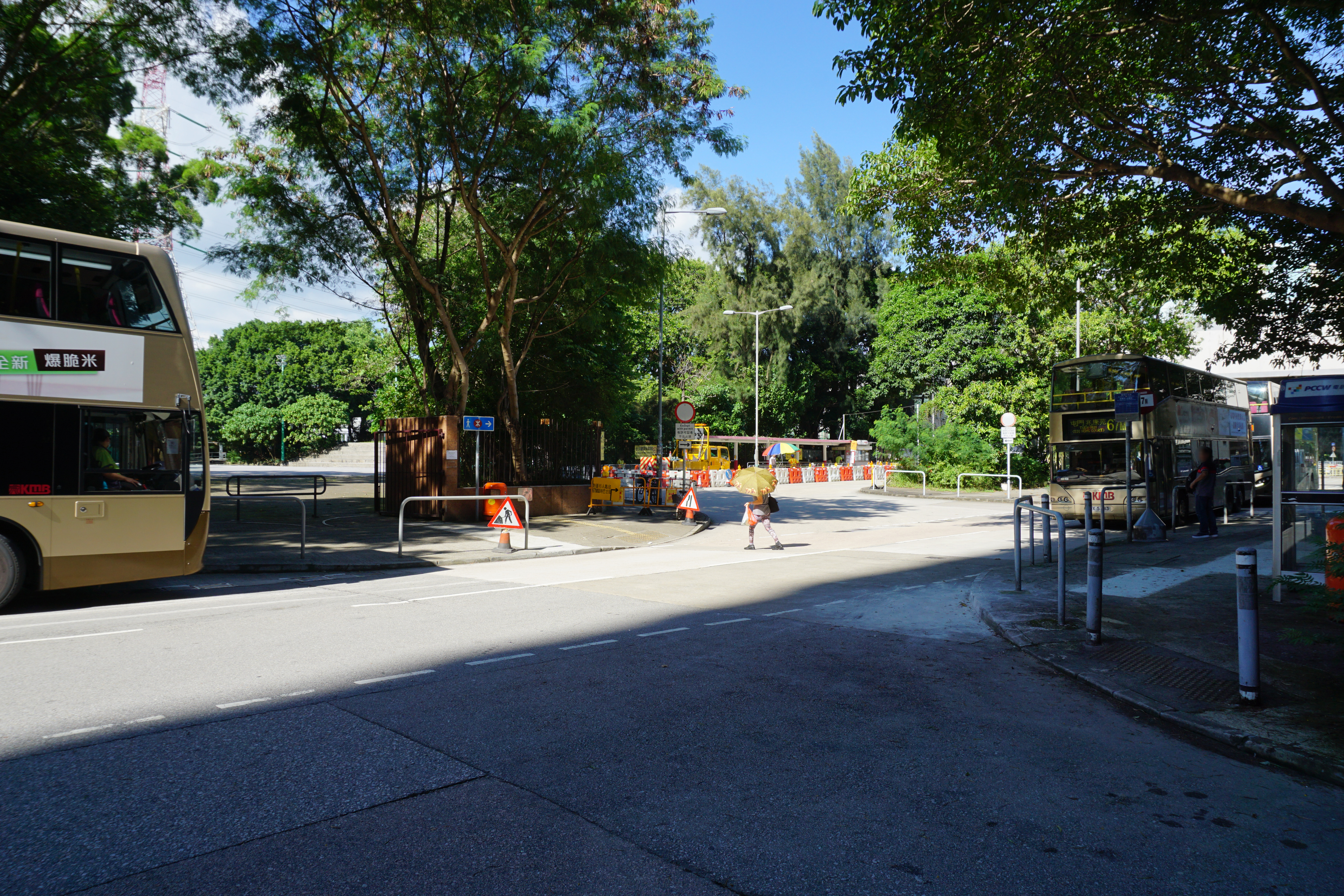 Siu Hong Court Temporary Bus Terminus in Tuen Mun, Hong Kong.